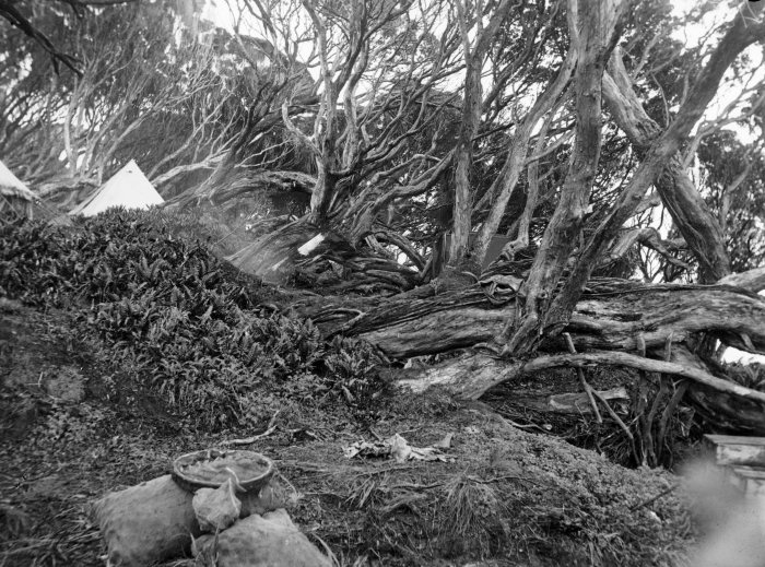 Southern rātā, (Metrosideros umbellata), growing at its southern limits (approx 50 degrees South latitude) at the Auckland Islands, approximately 450 km south of the South Island of New Zealand. Original title: Protrate growing rata trees, Carnley Harbour, Auckland Islands